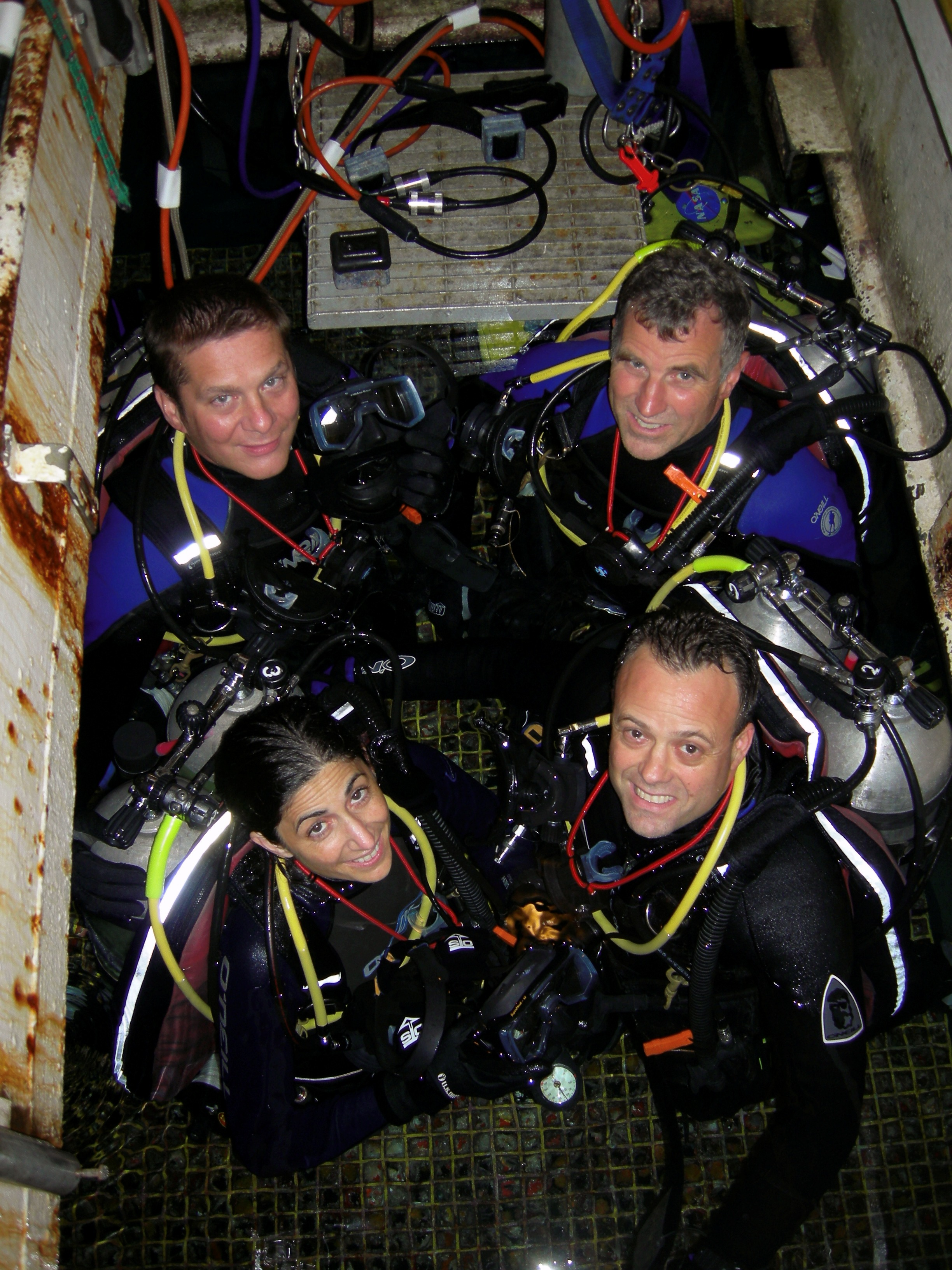 Crew members for the ninth NASA Extreme Environment Mission Operations (NEEMO) mission prepare for a night dive off the coast of Key Largo, Florida. Canadian Astronaut Dafydd R. (Dave) Williams (right rear) leads the crew, which includes astronaut/aquanauts Ronald J. Garan Jr. (right front) and Nicole P. Stott (left front), and University of Cincinnati physician Tim Broderick (left rear).